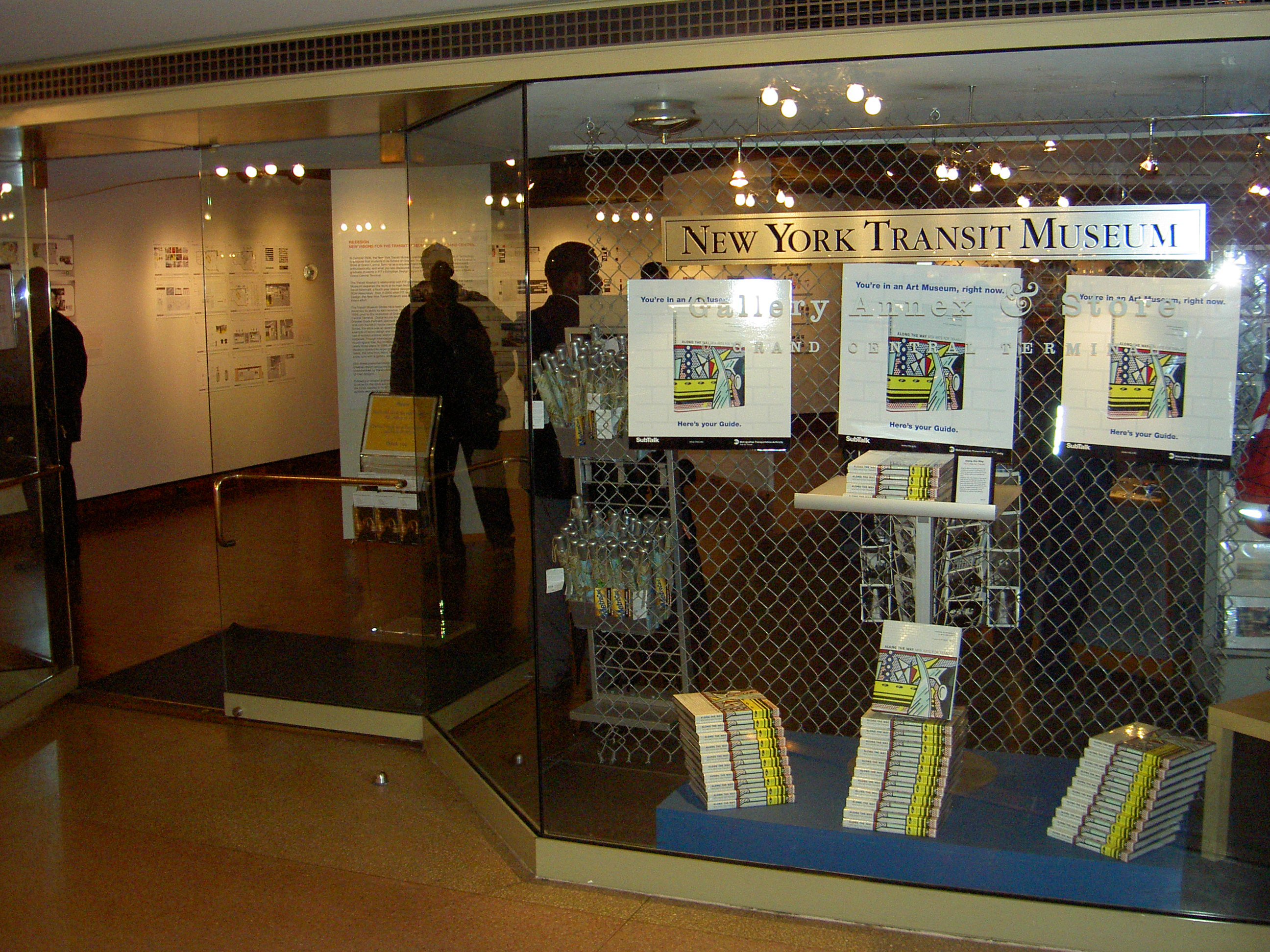 New York Transit Museum by David Shankbone